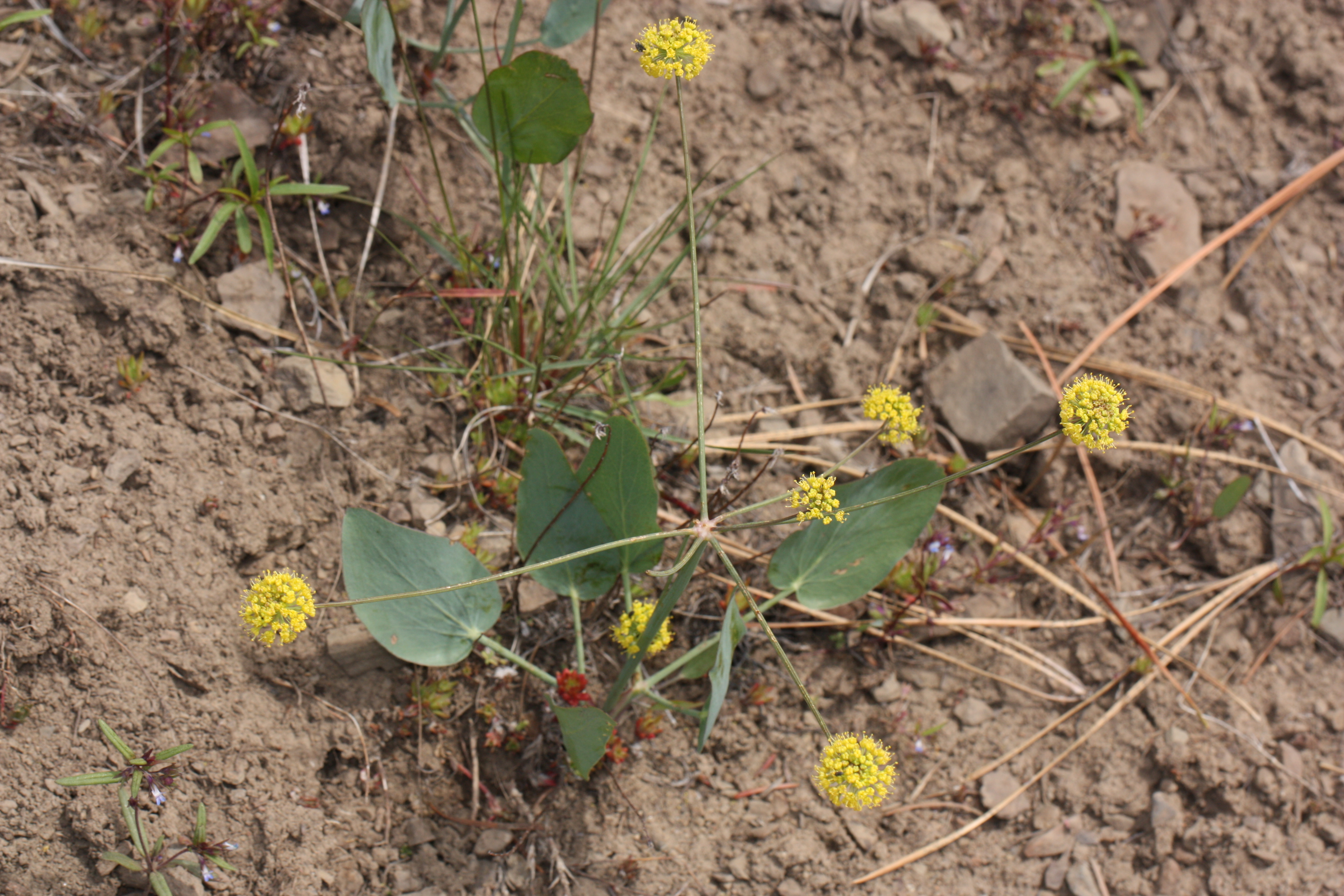 Barestem Biscuitroot, Indian-consumption-plant, Pestle Parsnip Viewpoint location: Tronsen Ridge Trail #1204, Tronsen Ridge Viewpoint elevation: 1335 meter (4379 ft) Location source: Garmin GPSmap 60CSx Location Datum: WGS84